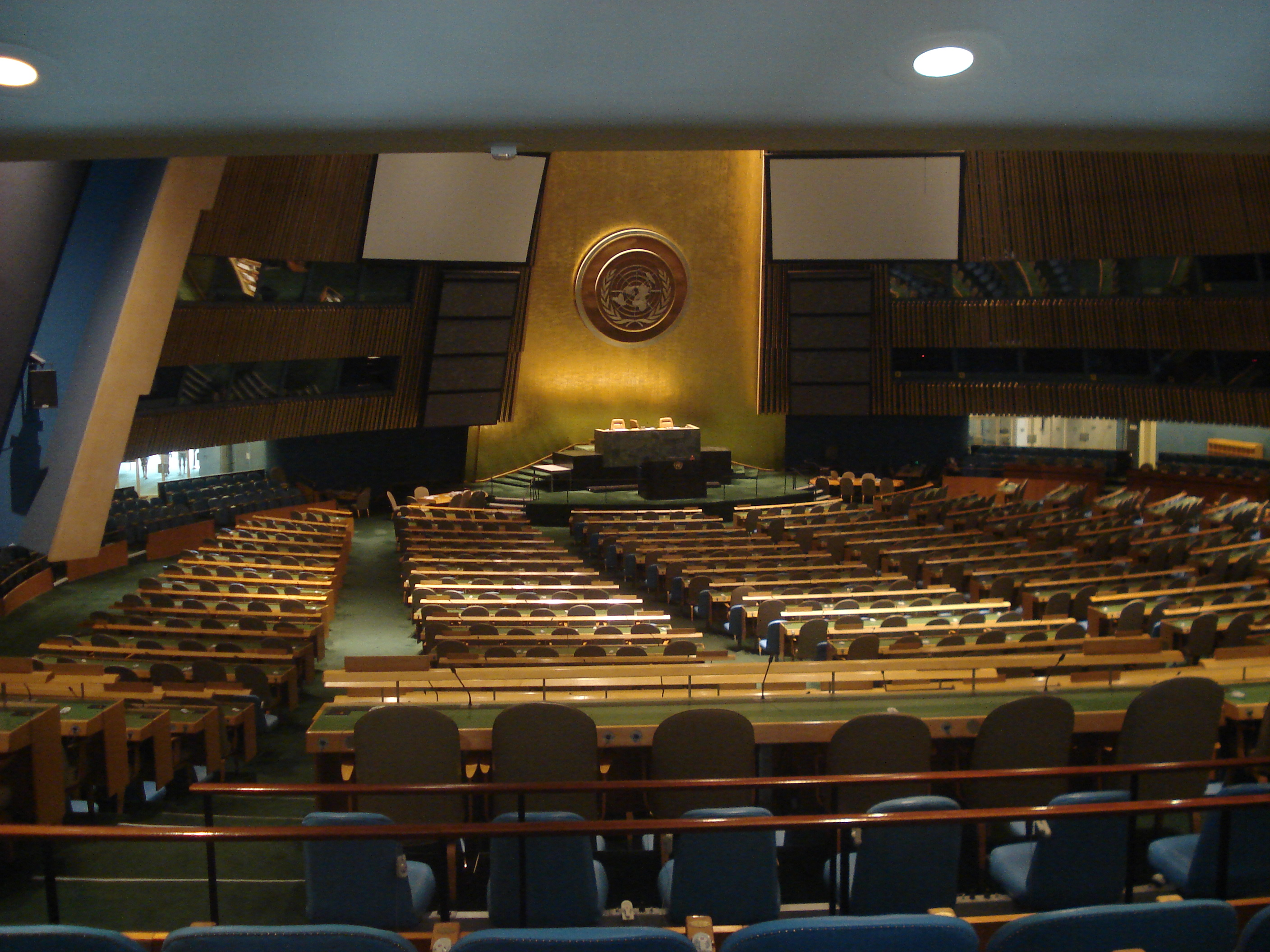 United Nations General Assembly